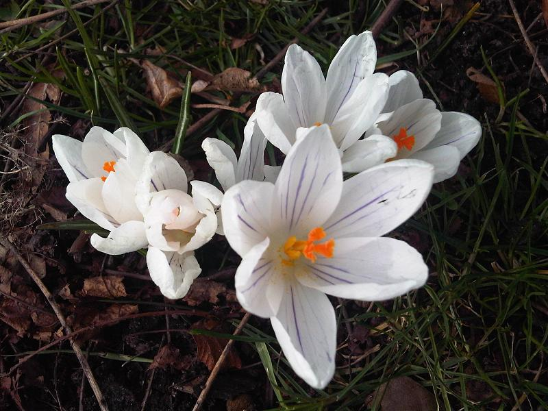 Crocus caspius at Kew Gardens, England.